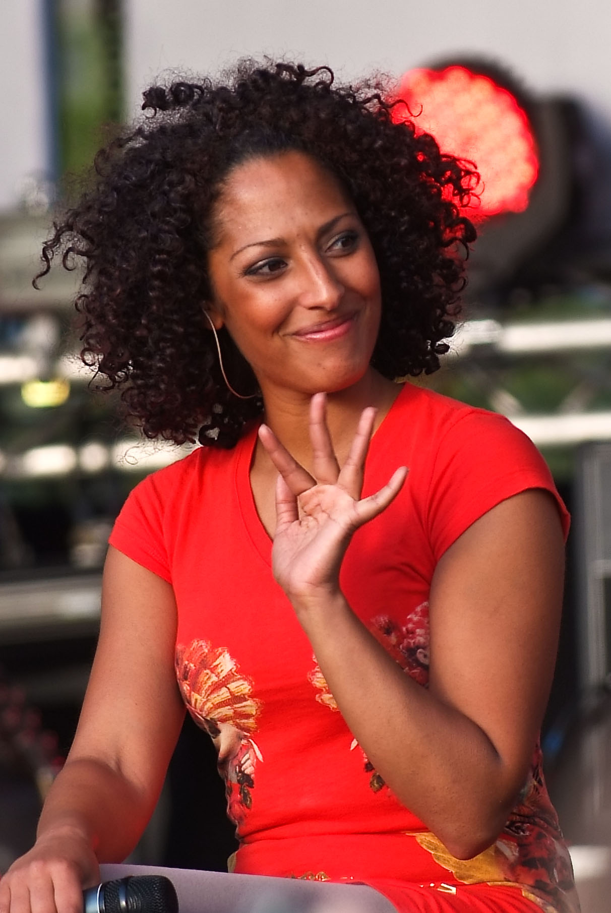 Jessica Wahls of No Angels